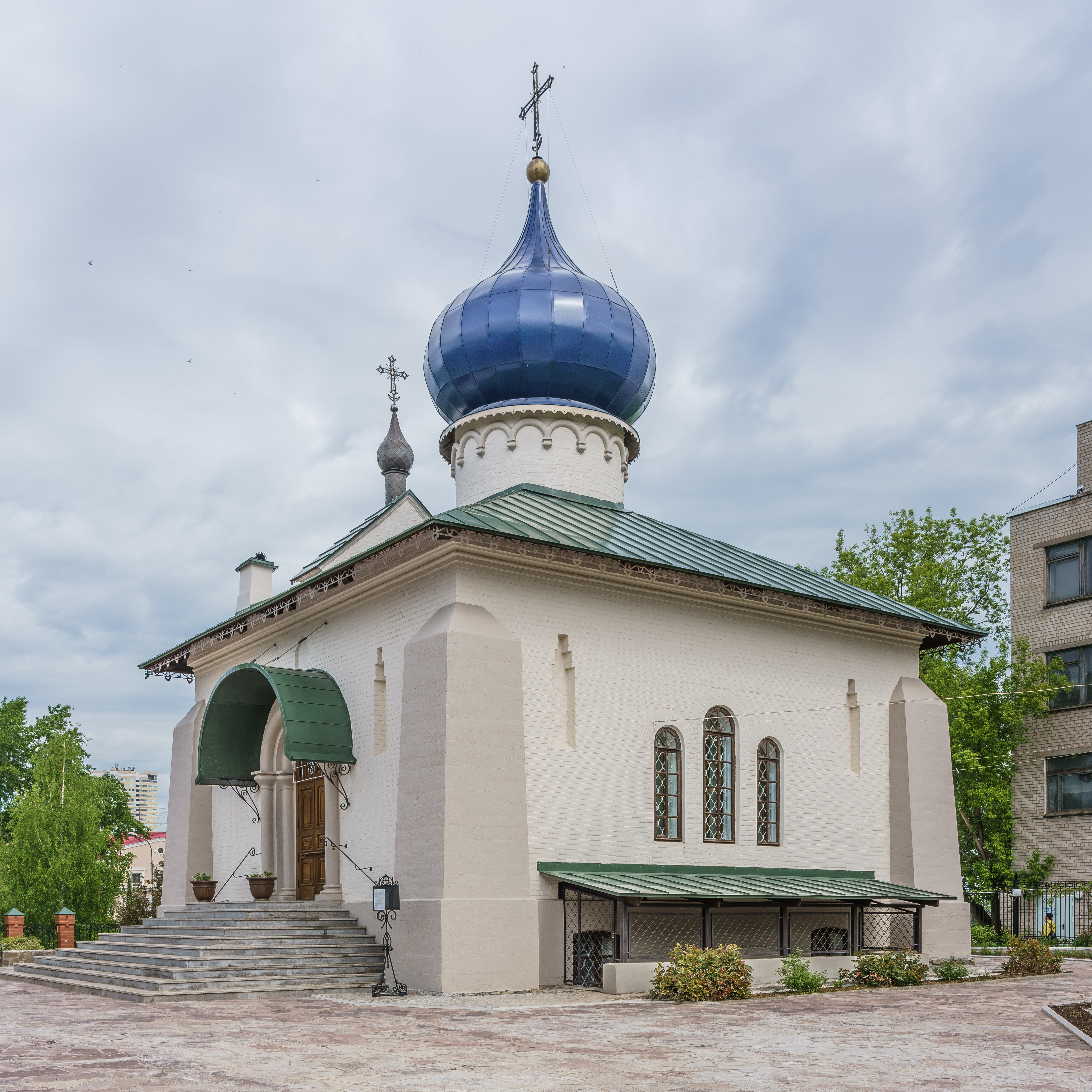 Uspensky Convent in Perm, Russia